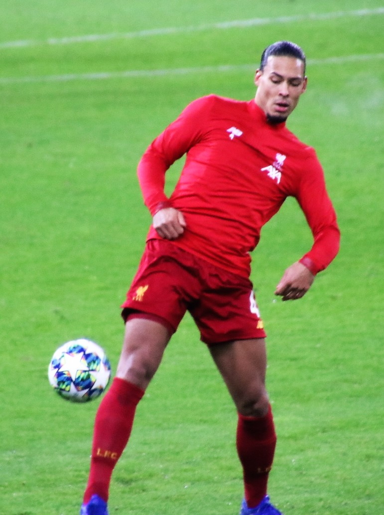 UEFA Champions League 6th round Group stage